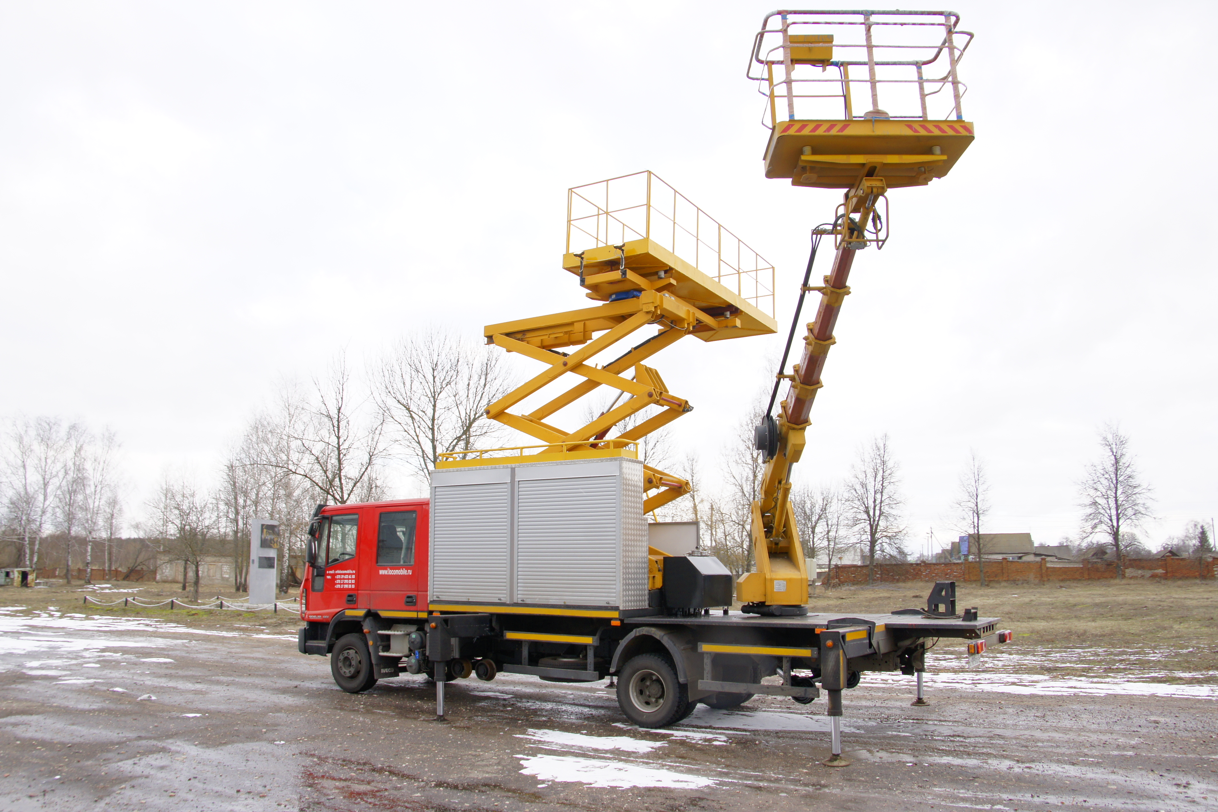 Локомобиль ТРАМЛИНЕР предназначен для работы с контактной сетью железных дорог